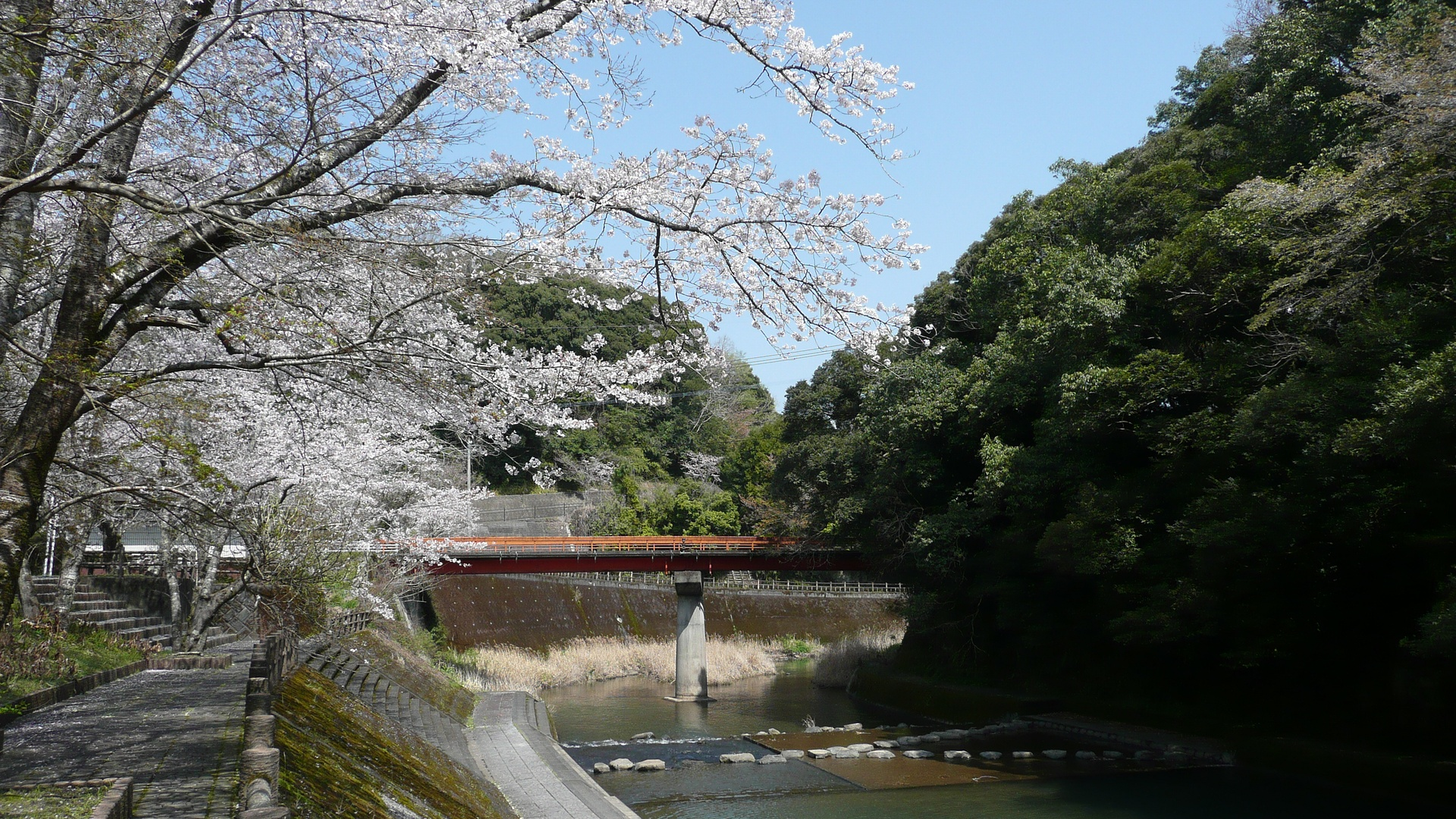 Aira River (Aira Sanryo, Kanoya City, Kagoshima, Japan)